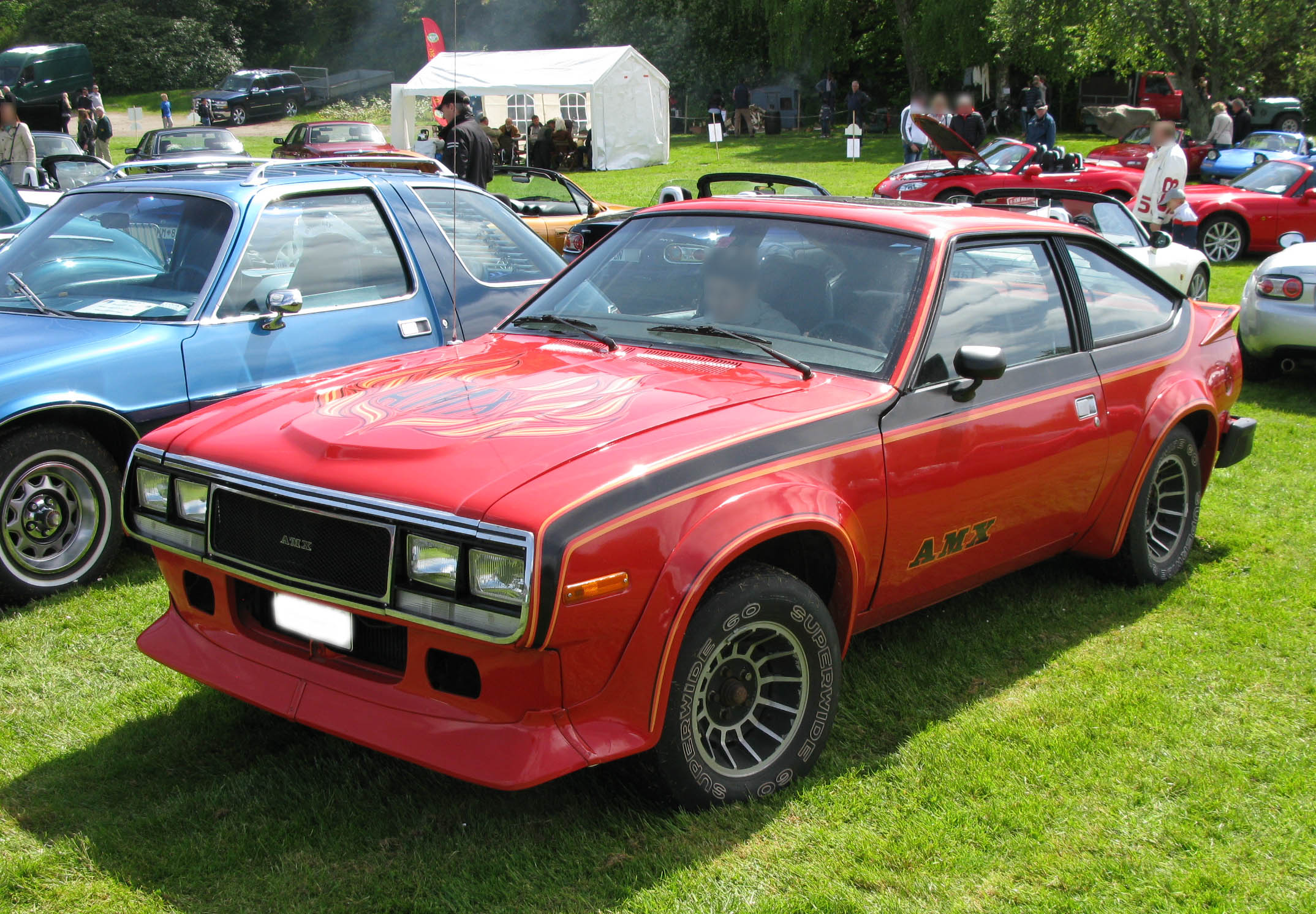 1979 AMC Spirit AMX Event: Tjolöholm Classic Motor 2015